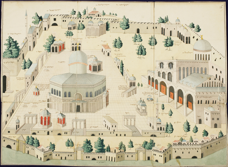 View of Jerusalem, from the manuscript of the Georgian travelogue by Timothy Gabashvili